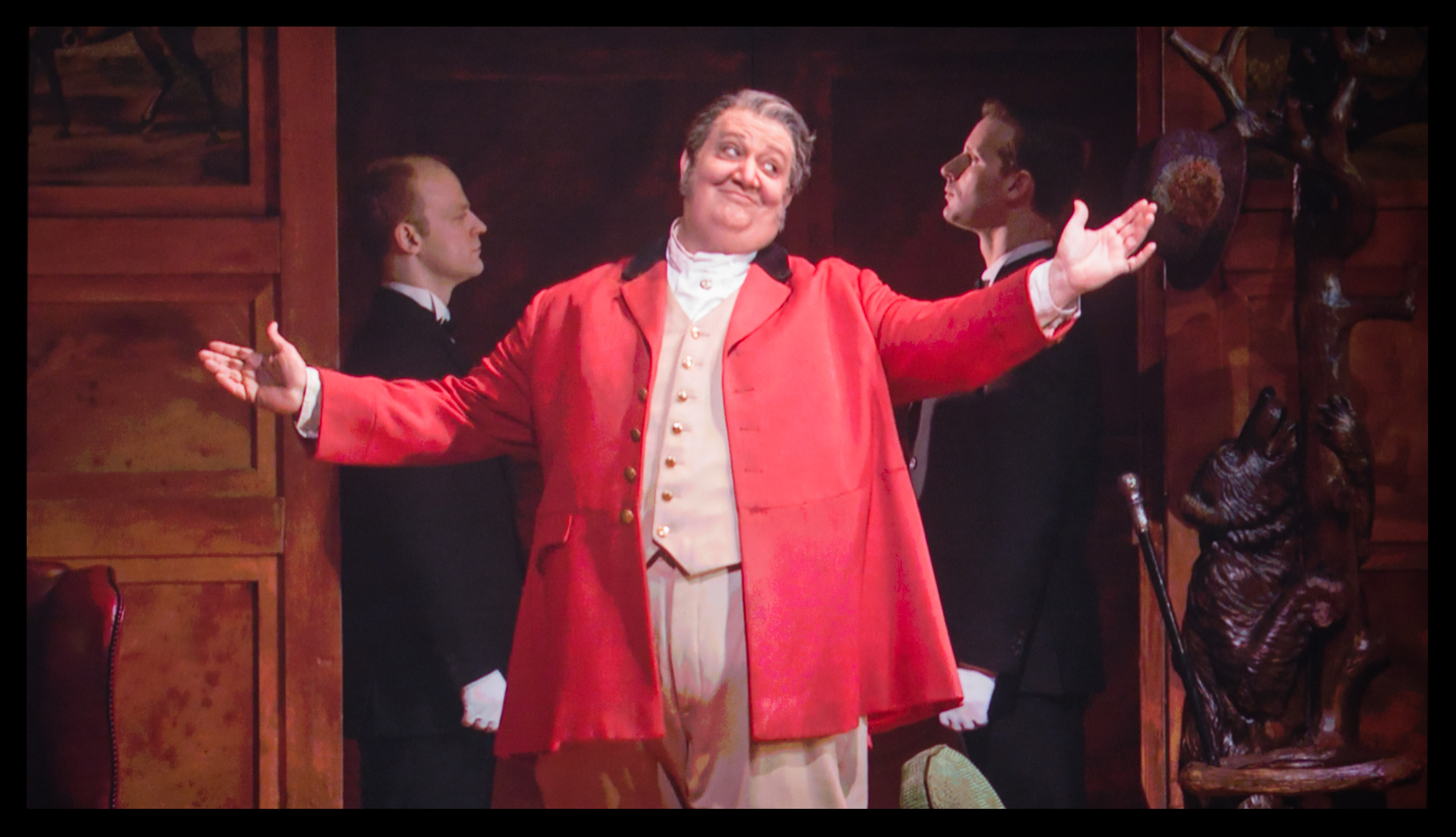 The Metropolitan Opera presents Falstaff, December 2013